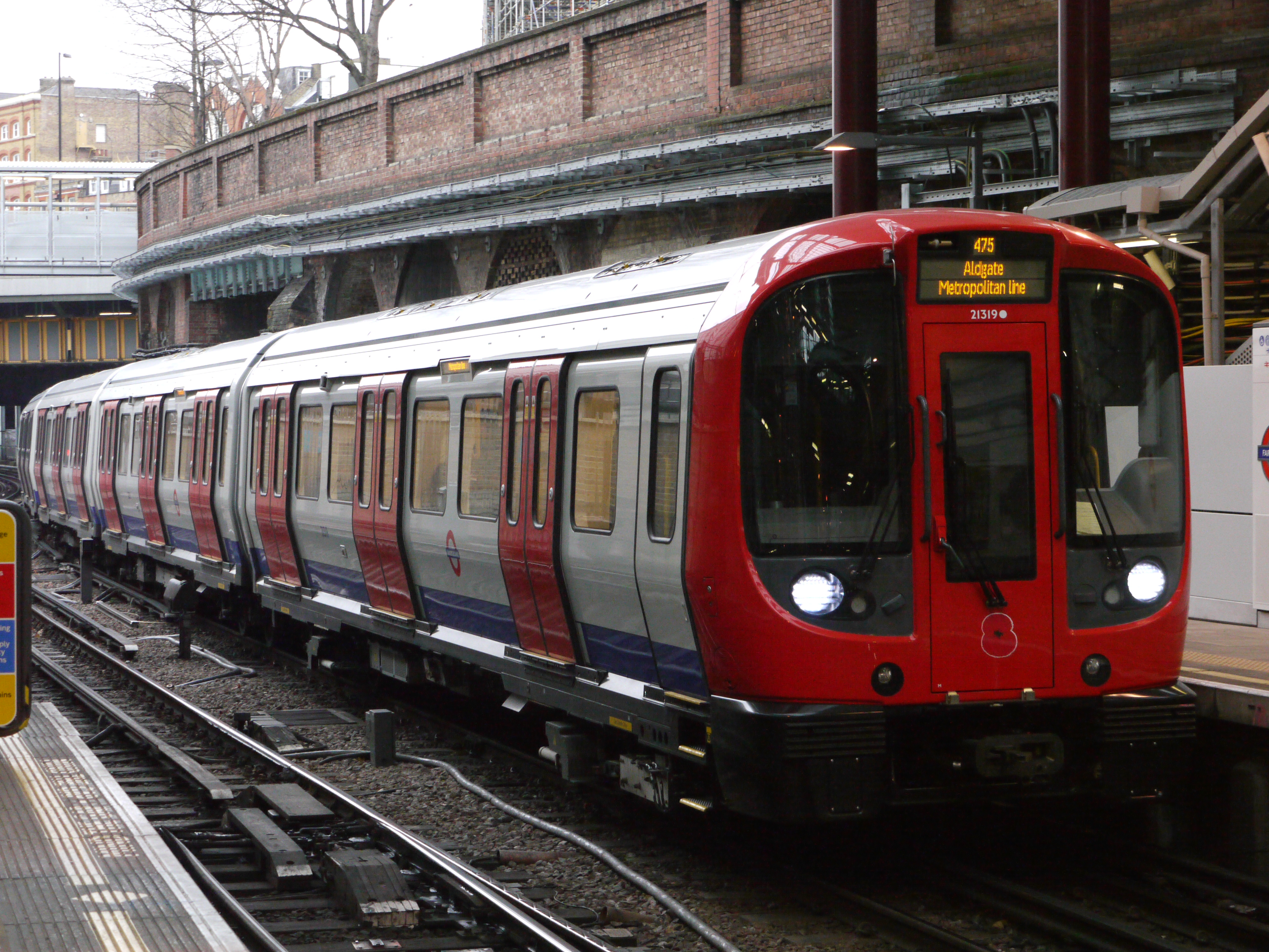 London Underground S stock train following car number 21319. While 21319 is a number for S-7 variant, this car is at the front of 8 car trains and run as a Metropolitan line train. Taken at Farringdon station